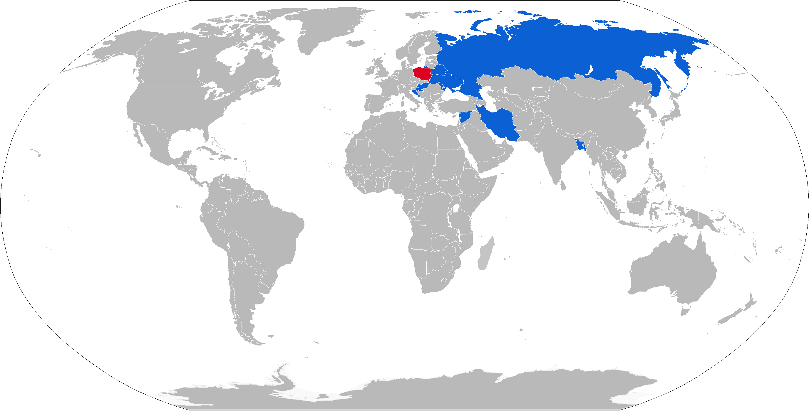 Map with 9K115 operators in blue and former operators in red